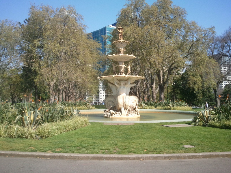 The Fountain present at the Roytal Exhibition in Carlton, Victoria